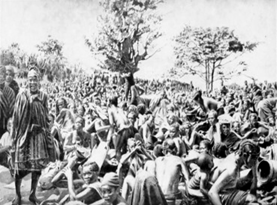 Market of Té : Dyula people (in 75 phot. du Sénégal, du Soudan, de la Guinée et de la Haute-Volta en 1899)